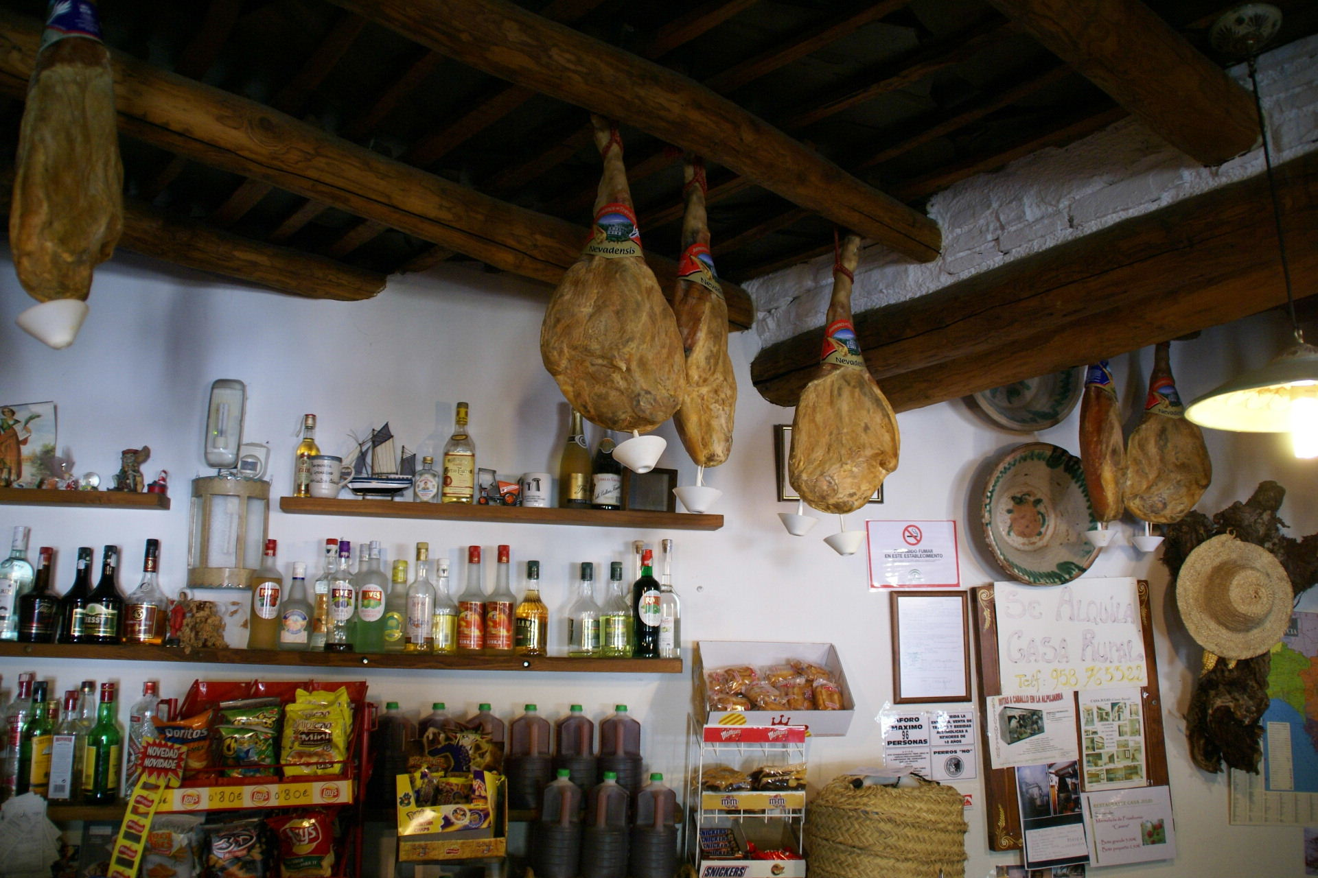 Sale of ibérico ham in Pampaneira, Granada, Spain